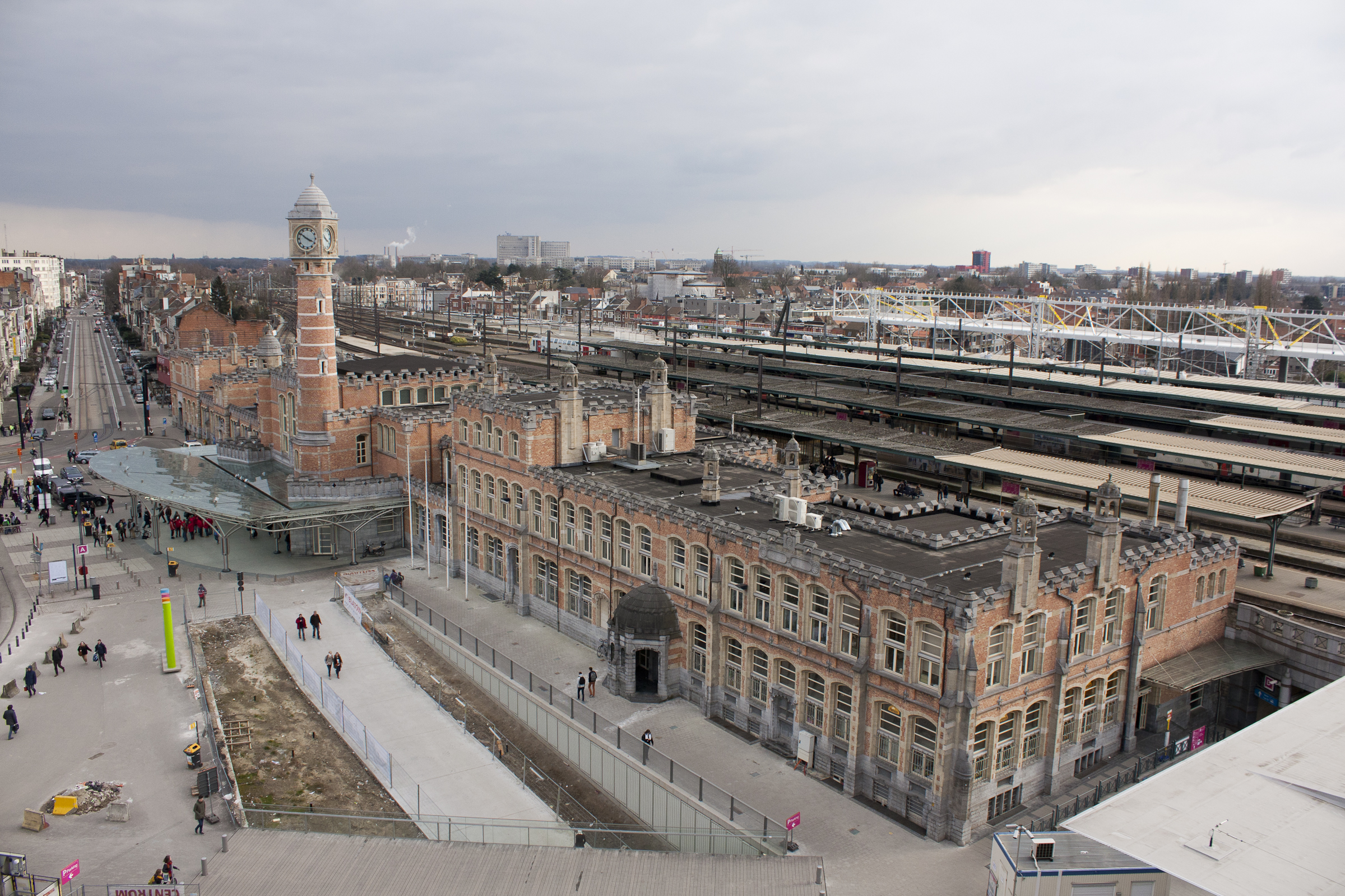 Overview picture of the Sint-Pieters railway station in Ghent, Belgium during the major renewal works, February 2013. Foto genomen van op de zij-arm van de Virginie Lovelingtoren.